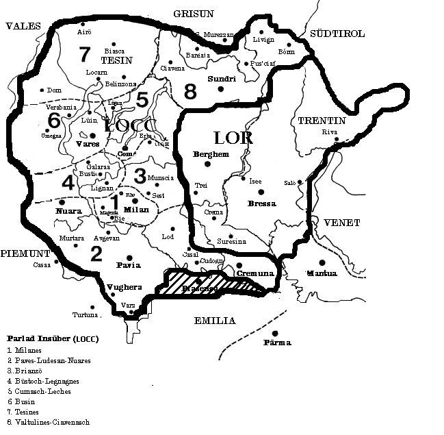 This is an image showing the area where Lombardisch is currently spoken.